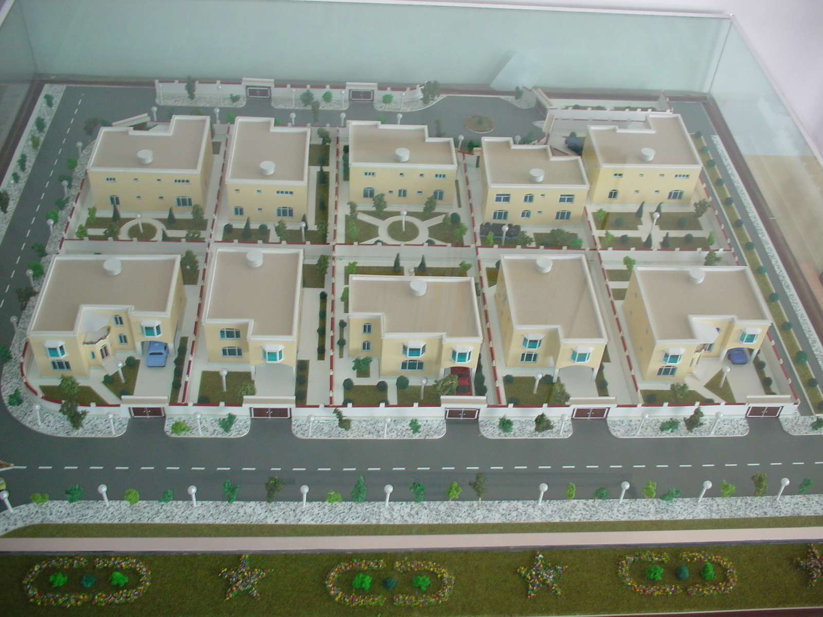 The model of modern-style housing scheme called Aino Mina in Kandahar, Afghanistan, which includes the construction of 20,000 family homes as well as parks, shopping centers, mosques, schools, community buildings, and etc. It is the affluent and more secured community of Kandahar.